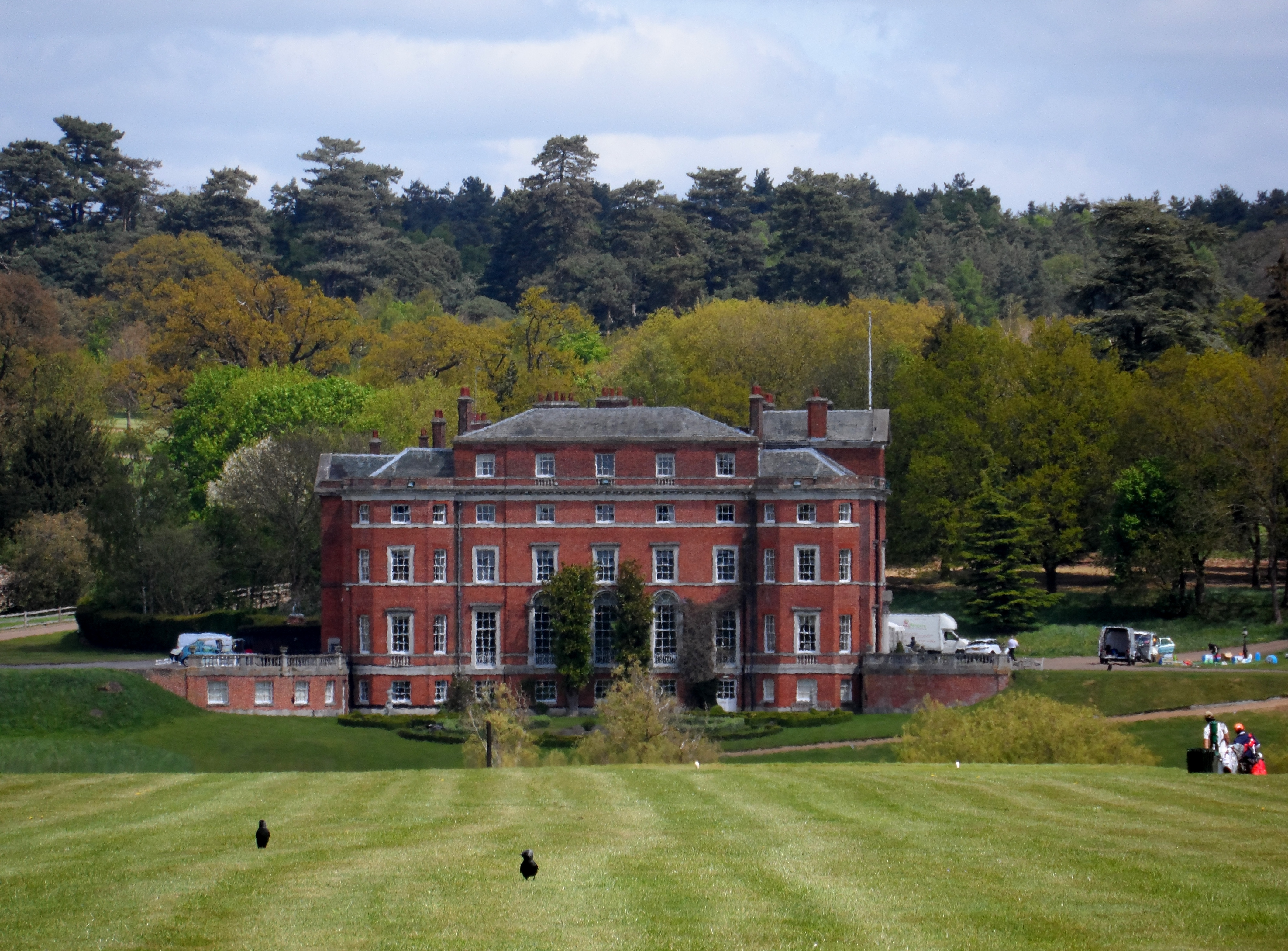 Brocket Hall. Built in 1760, replacing an earlier buildings of 1239 and 1430.